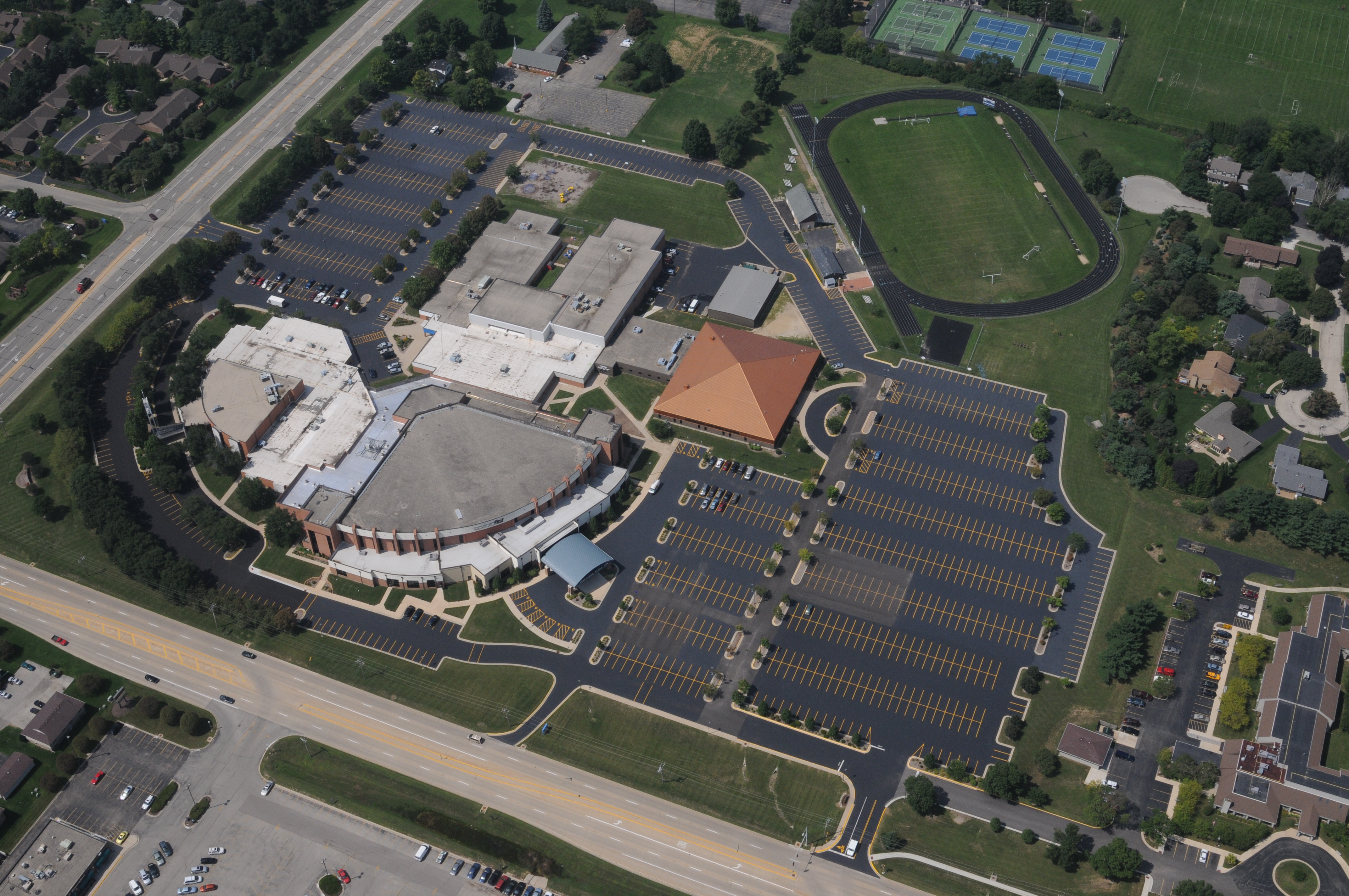 The aerial view of Rockford First Campus 2010